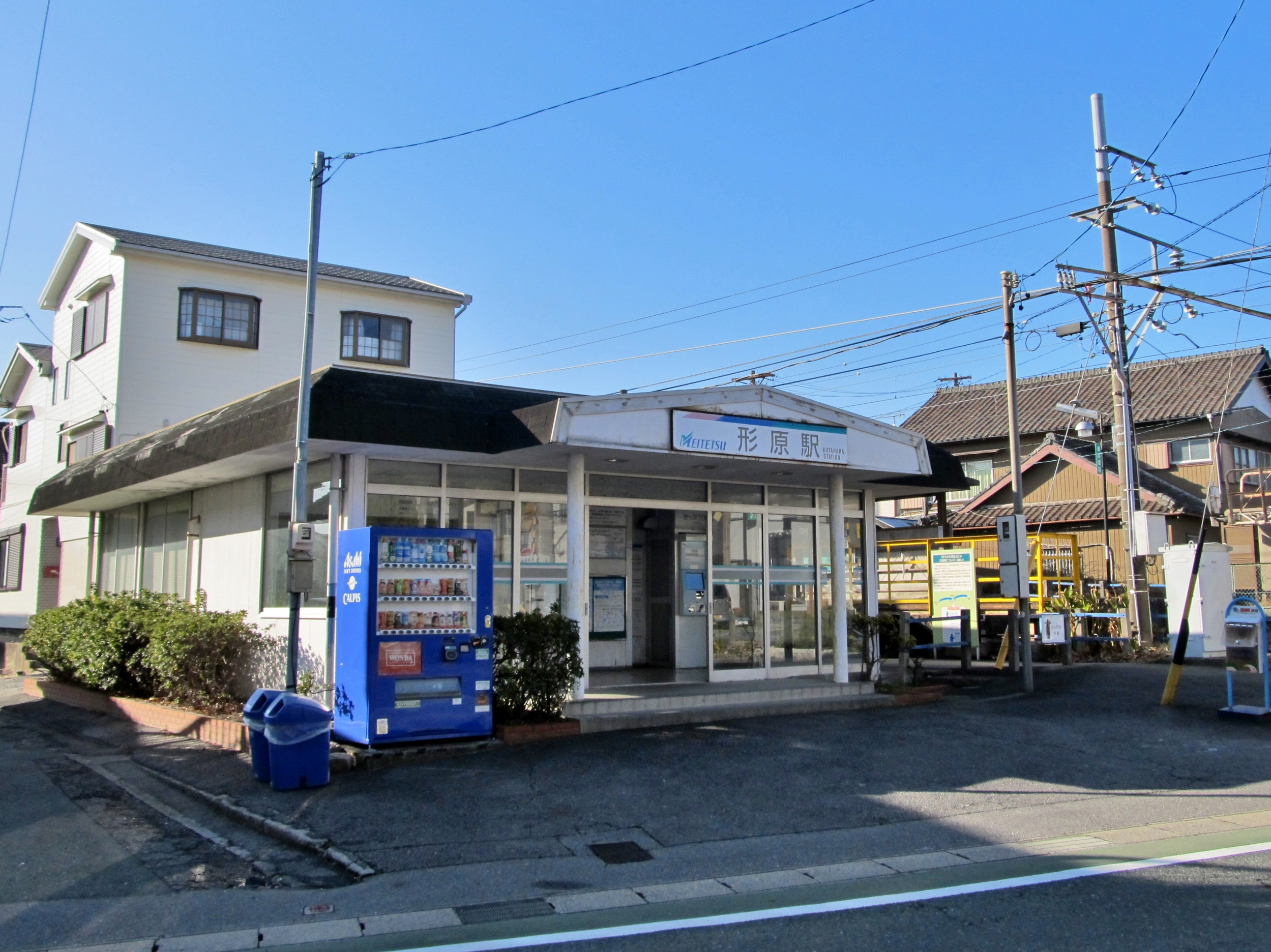 Nagoya Railroad Gamagōri Line Katahara Station Building